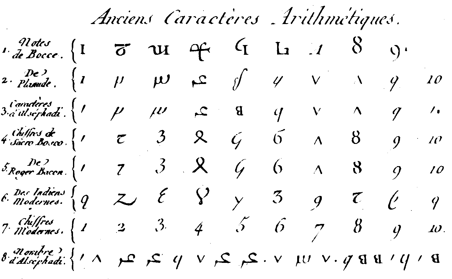 Early european variants of the arabian digits